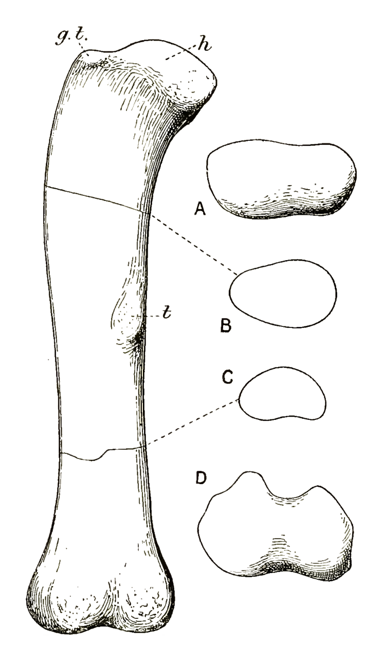 Cetiosatirus leedsi - Left femur, posterior aspect; A, upper end; B, C, transverse sections of shaft; and D, lower end. About 1/13 nat. size.